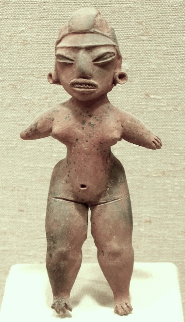 A ceramic figurine from Central Mexico, 12th to 9th century BC